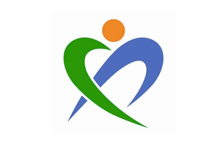 Flag of Yasu Shiga